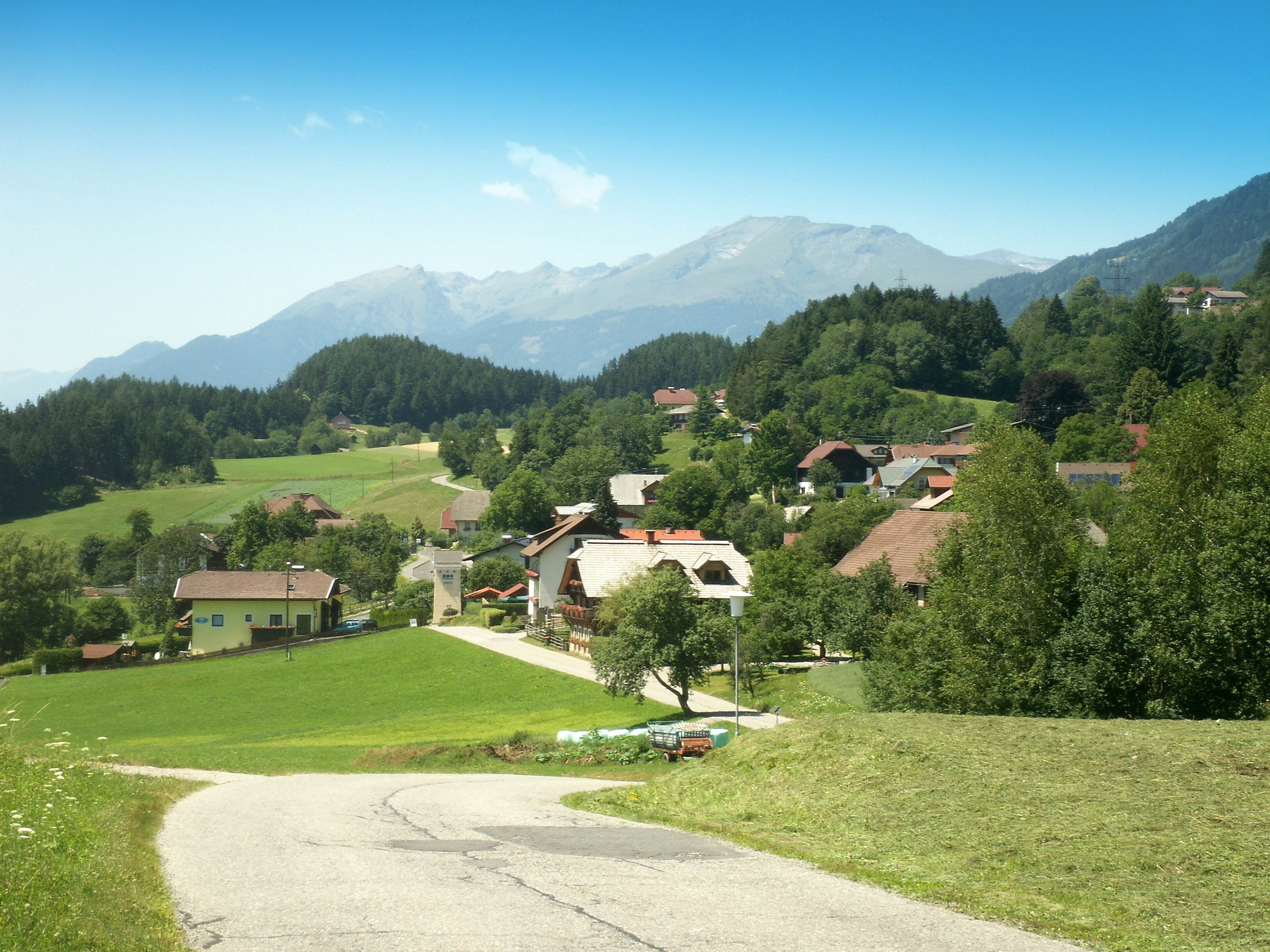 Sappl near Lake Millstatt (Millstätter See), district Spittal an der Drau in Carinthia / Austria / EU.